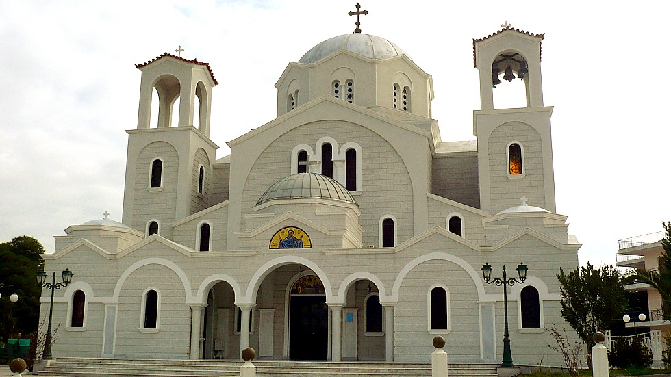 The picture depicts the Koimiseos tis Theotokou Church of Kantza, at the top of the hill.